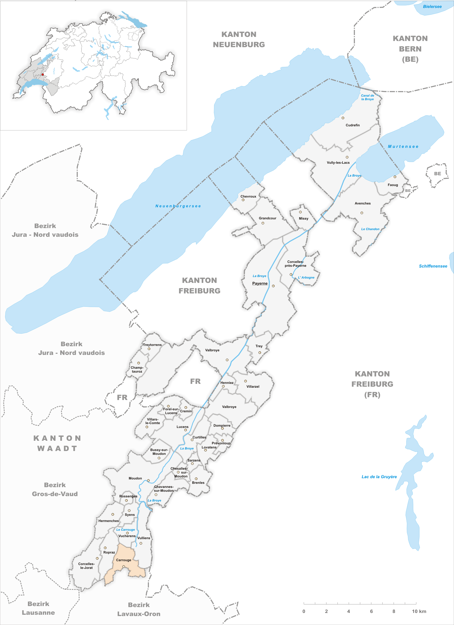 Municipality Carrouge